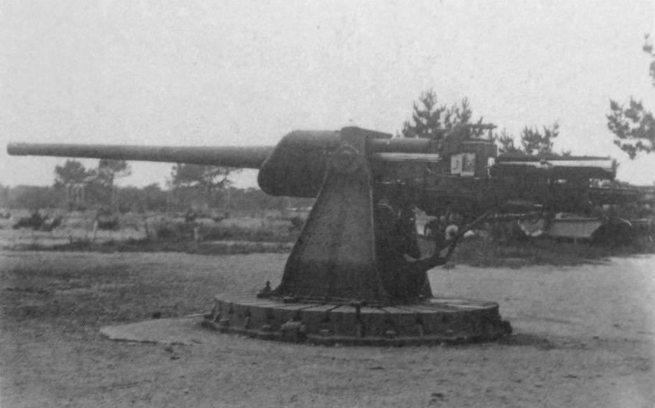 Imperial Japanese Army Experimental 105mm tank gun (semi-auto loader).